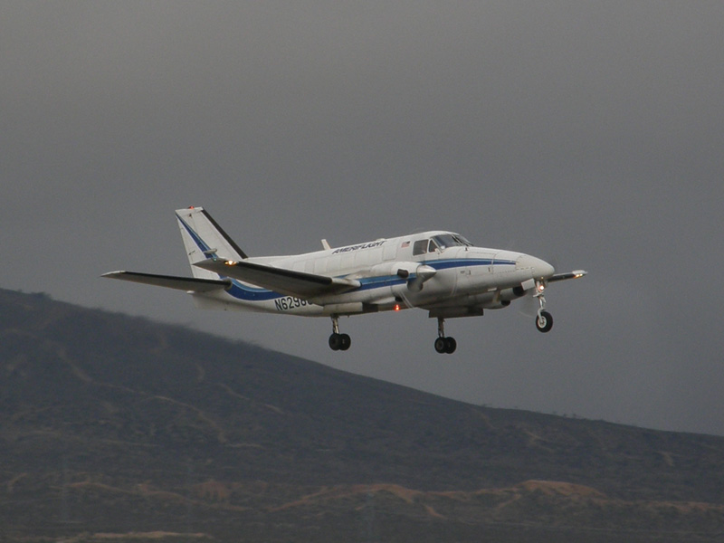 Beech C99 freighter operated by Ameriflight takes off from the Mojave Airport